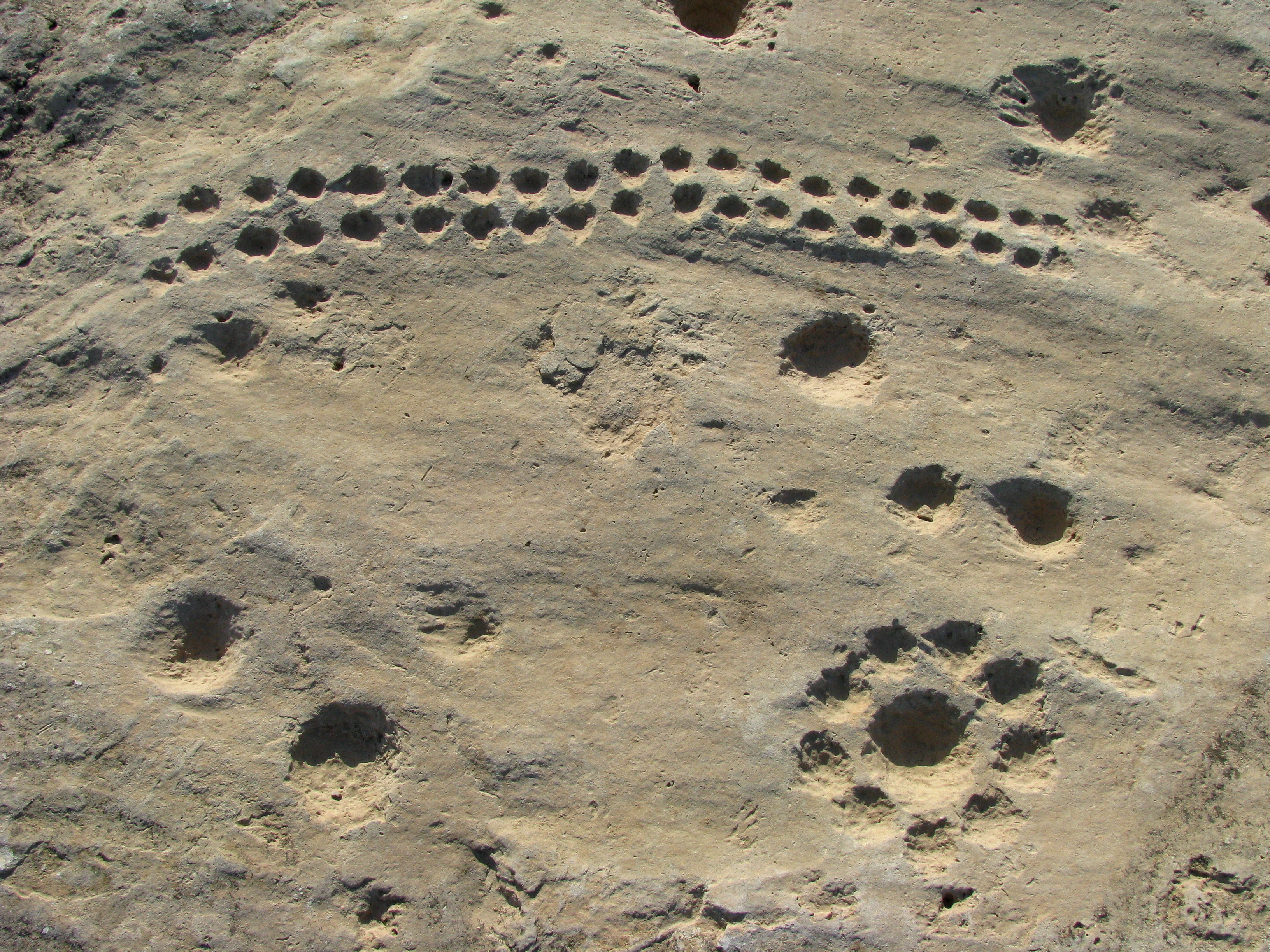 This photo captures two of the main patterns that could be found throughout the site - two rows of parallel dots (top), and a circular cluster of dots (bottom right).